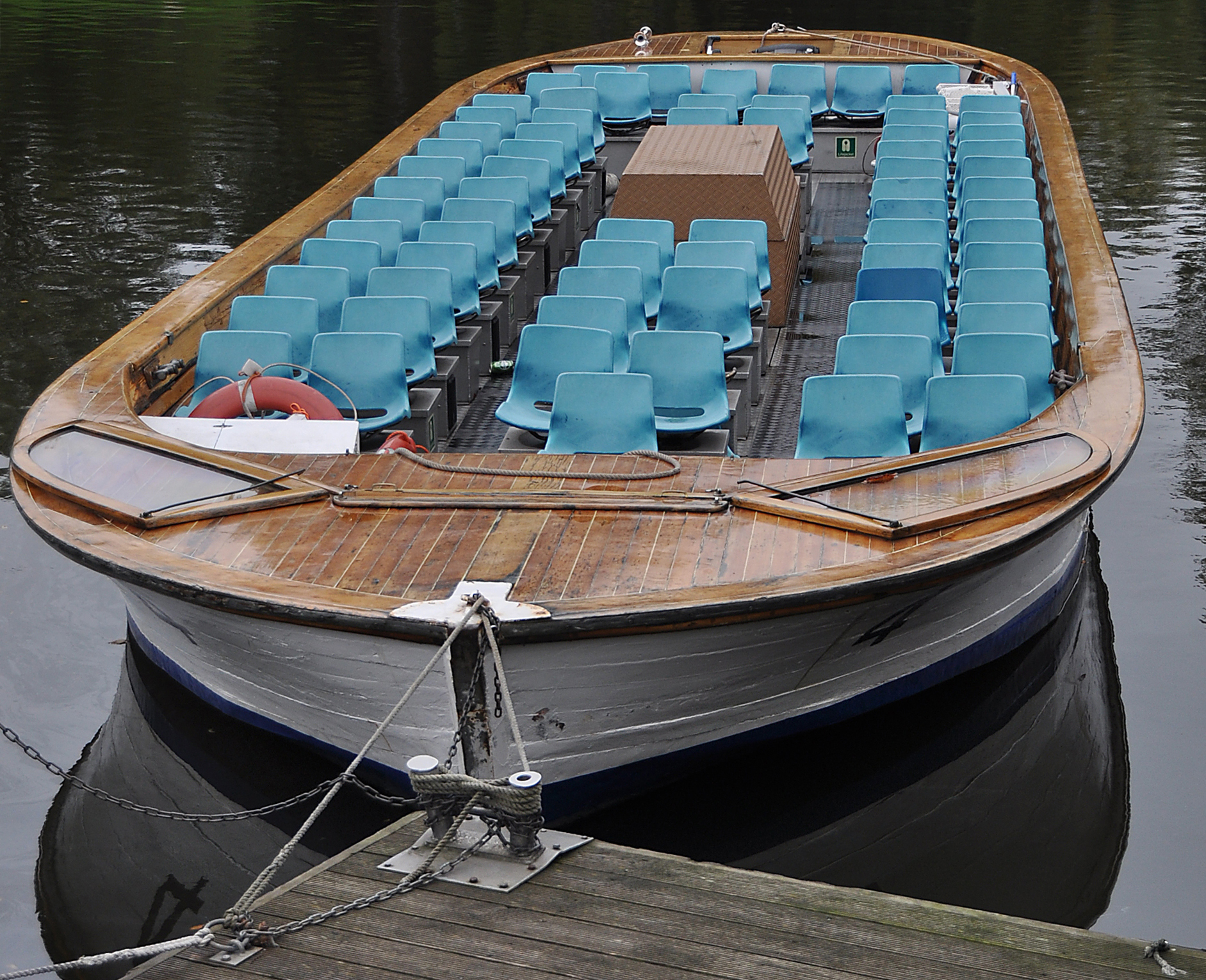 Paddan 4, histori sightseeing boat in Göteborg. Built in Sjötorp 1947. Längd 15,94m, bredd 4,08m, djup 0,91m. Brt 14,41